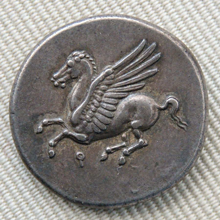 Silver tridrachm from Corinth, ca. 308–306 BC, obverse: Pegasus flying left; Greek letter qoppa (ϙ) in lower fields.